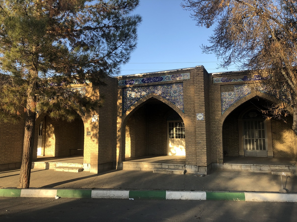 Beheshte Zahra Cemetery